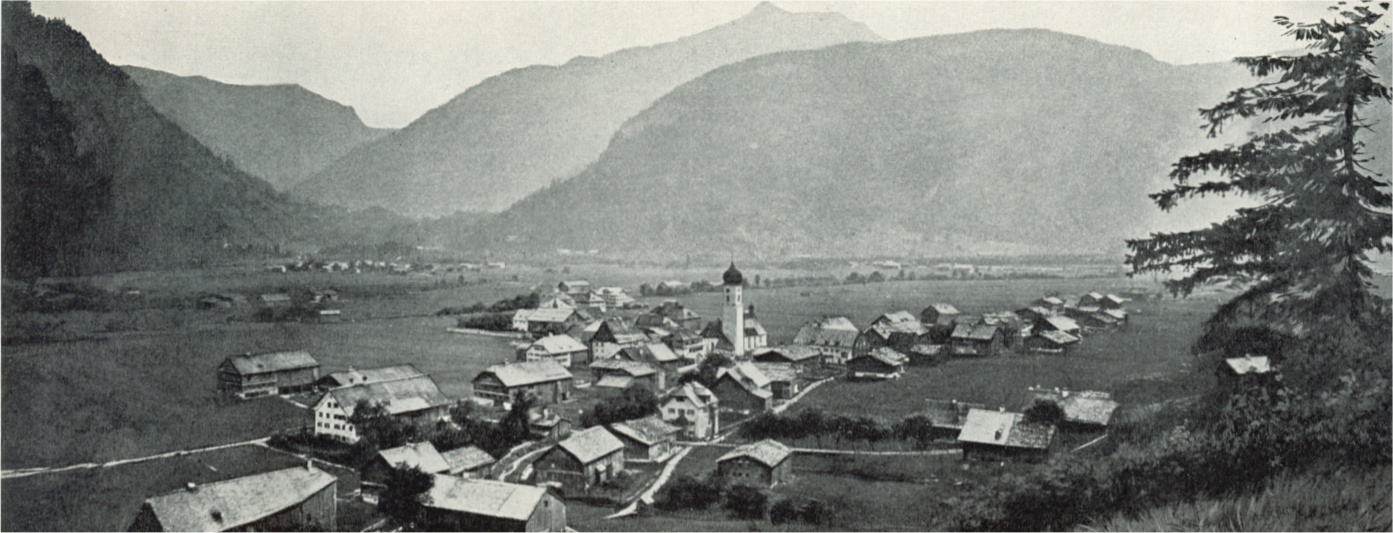 Bezau is a town in the Bregenzerwald, Vorarlberg, Austria